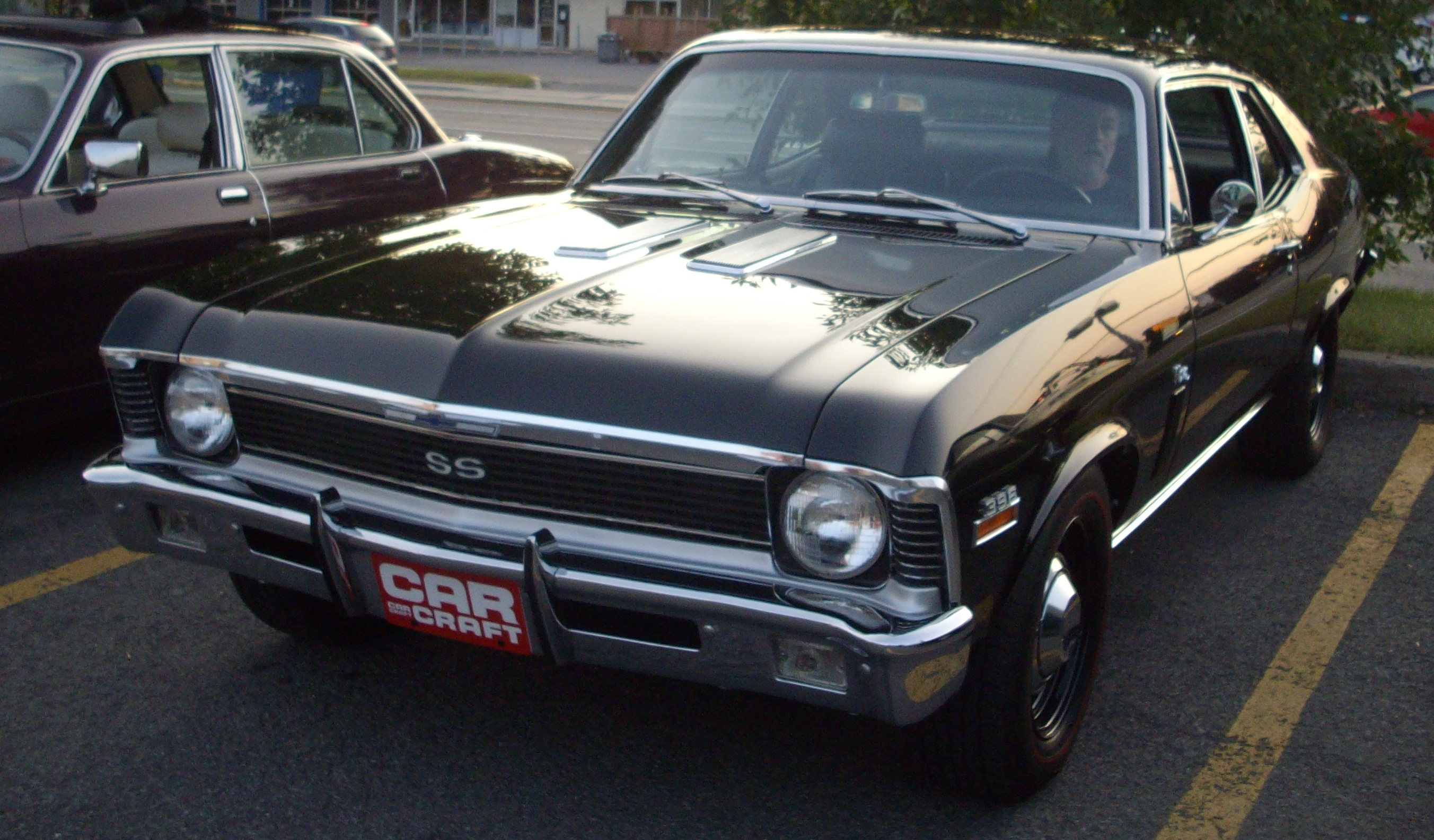 1972 Chevrolet Nova SS photographed in Châteauguay, Quebec, Canada at Auto classique A&W Châteauguay.